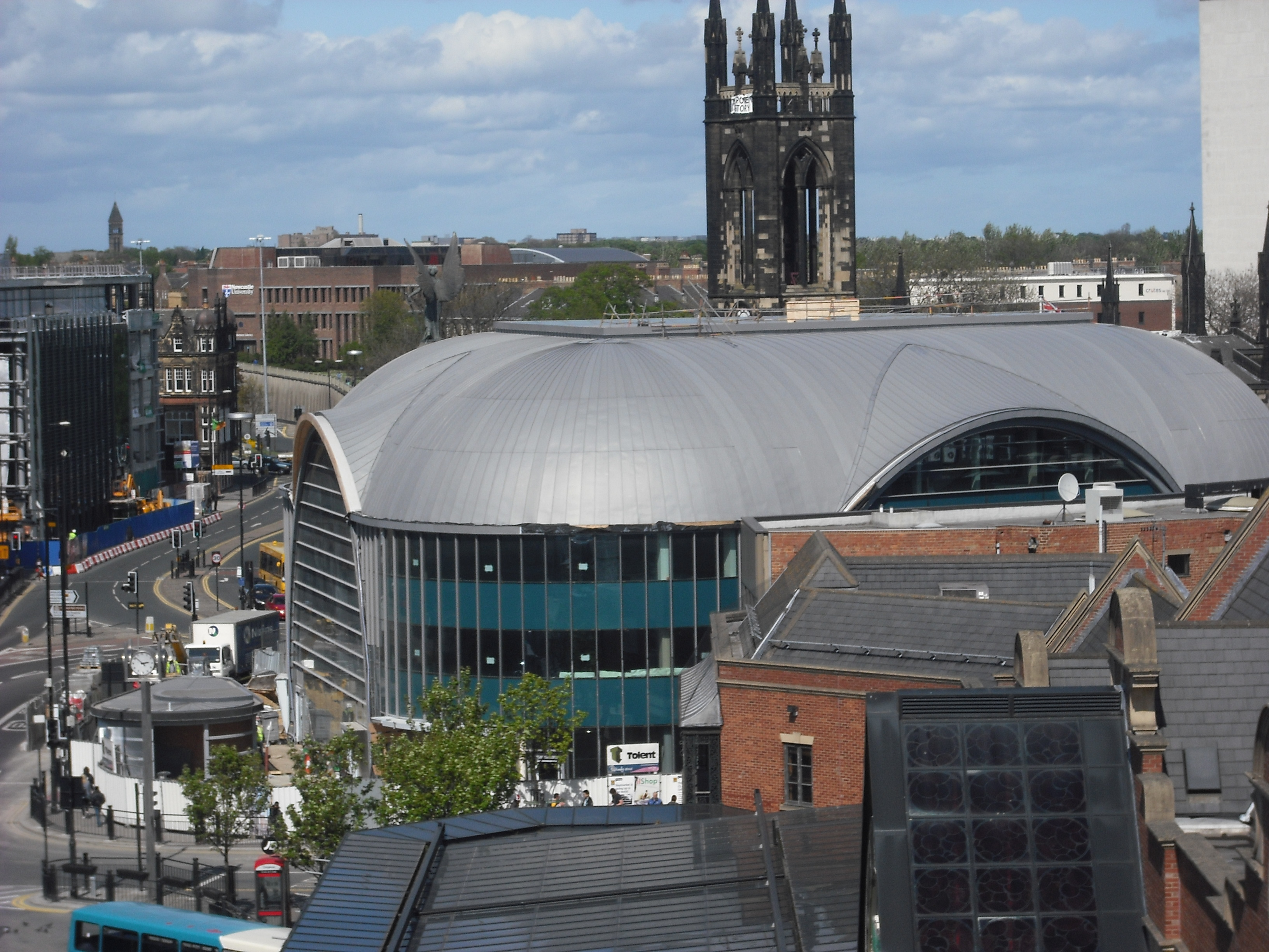 The west (left) & south (right) faces of the Haymarket Hub building in Newcastle upon Tyne, part of Haymarket station on the Tyne and Wear Metro.